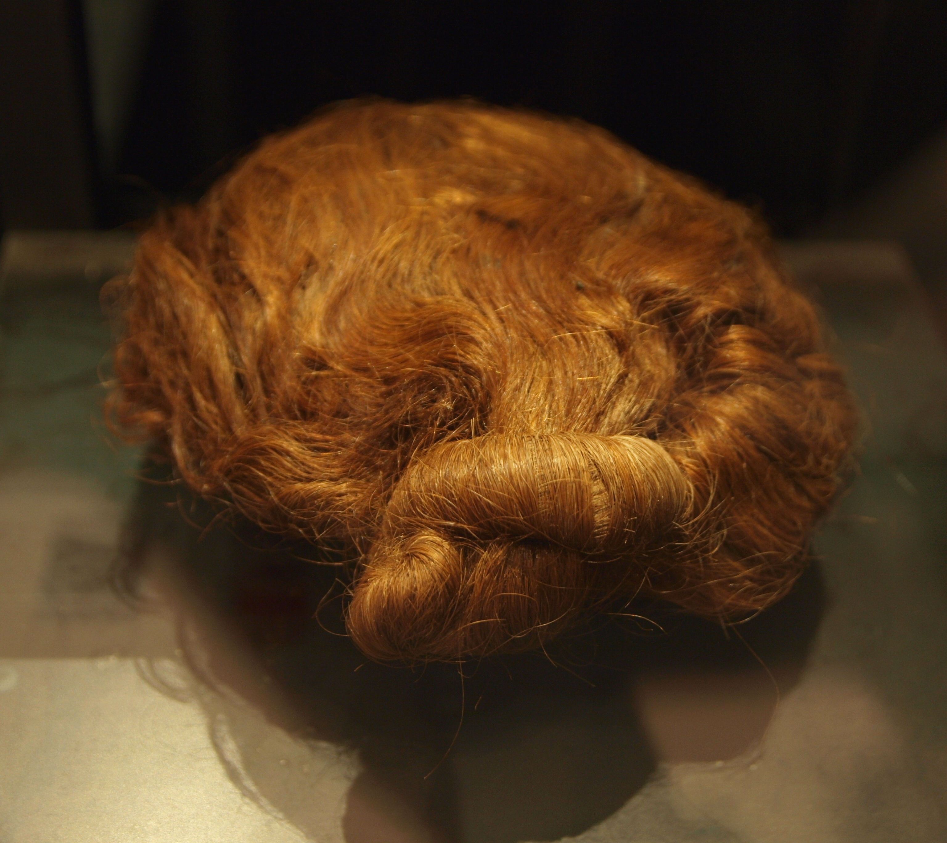 The hair with suebian knot hairstyle of bog body Dätgen Man. On display at Archäologisches Landesmuseum Gottorf Castle, Schleswig Germany. Found in 1959 in the Großen Moor south of Dätgen. C14 dated beween 135 and 385 AD.